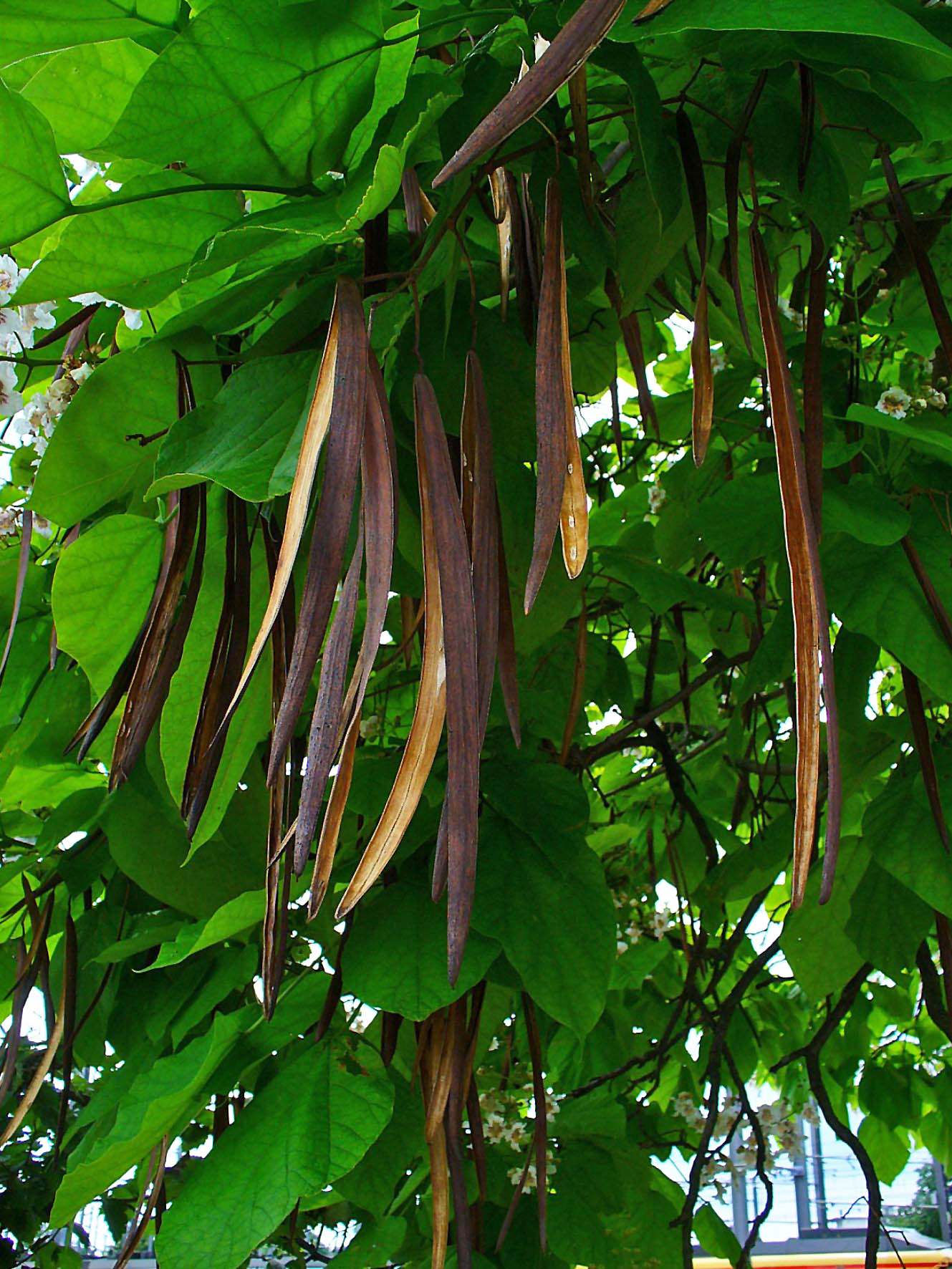 Catalpa bignonioides, Bignoniaceae, Southern Catalpa, Indian Bean Tree, pods; Karlsruhe, Germany.